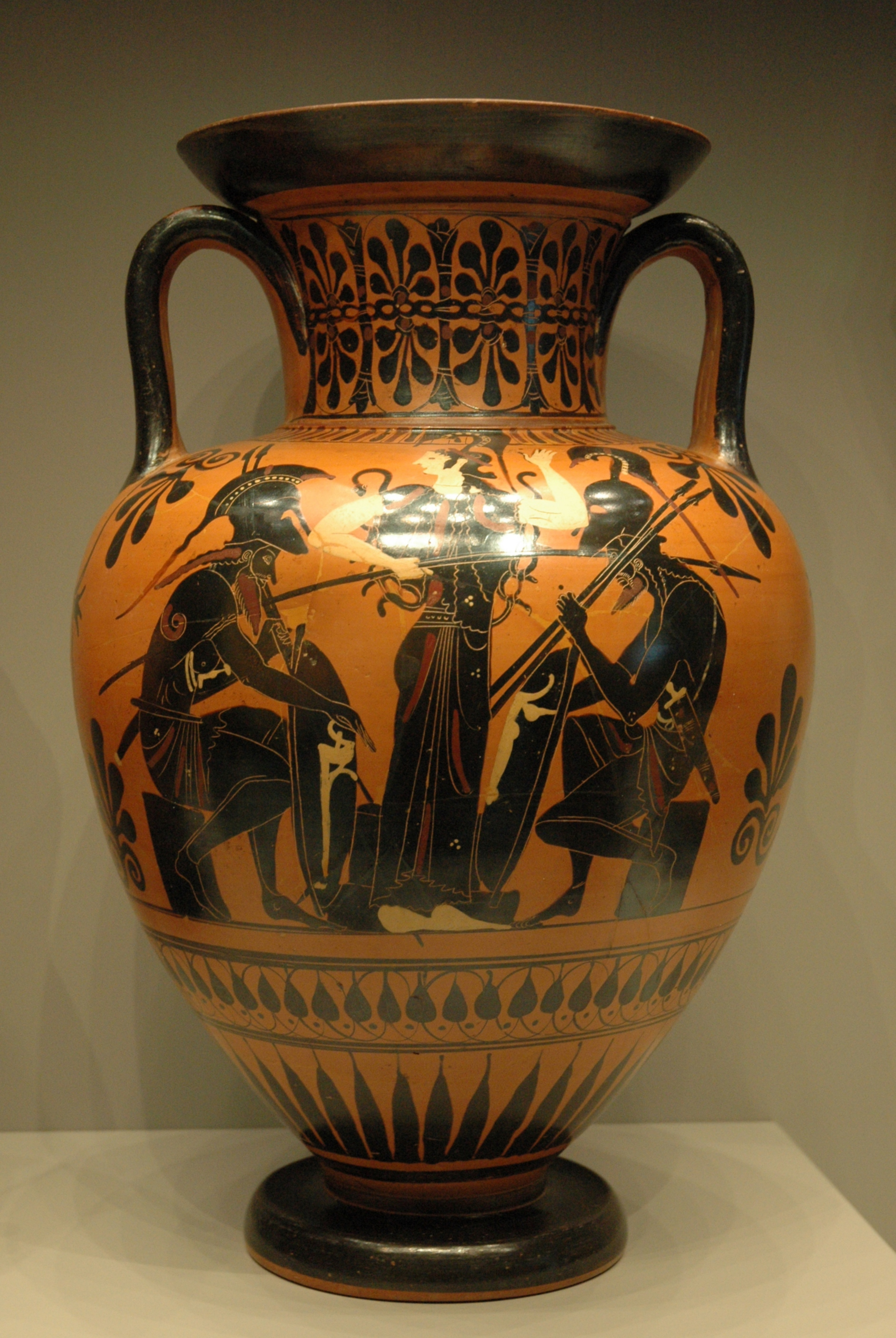 Achilles and Ajax playing a board game. Attic black-figure amphora.